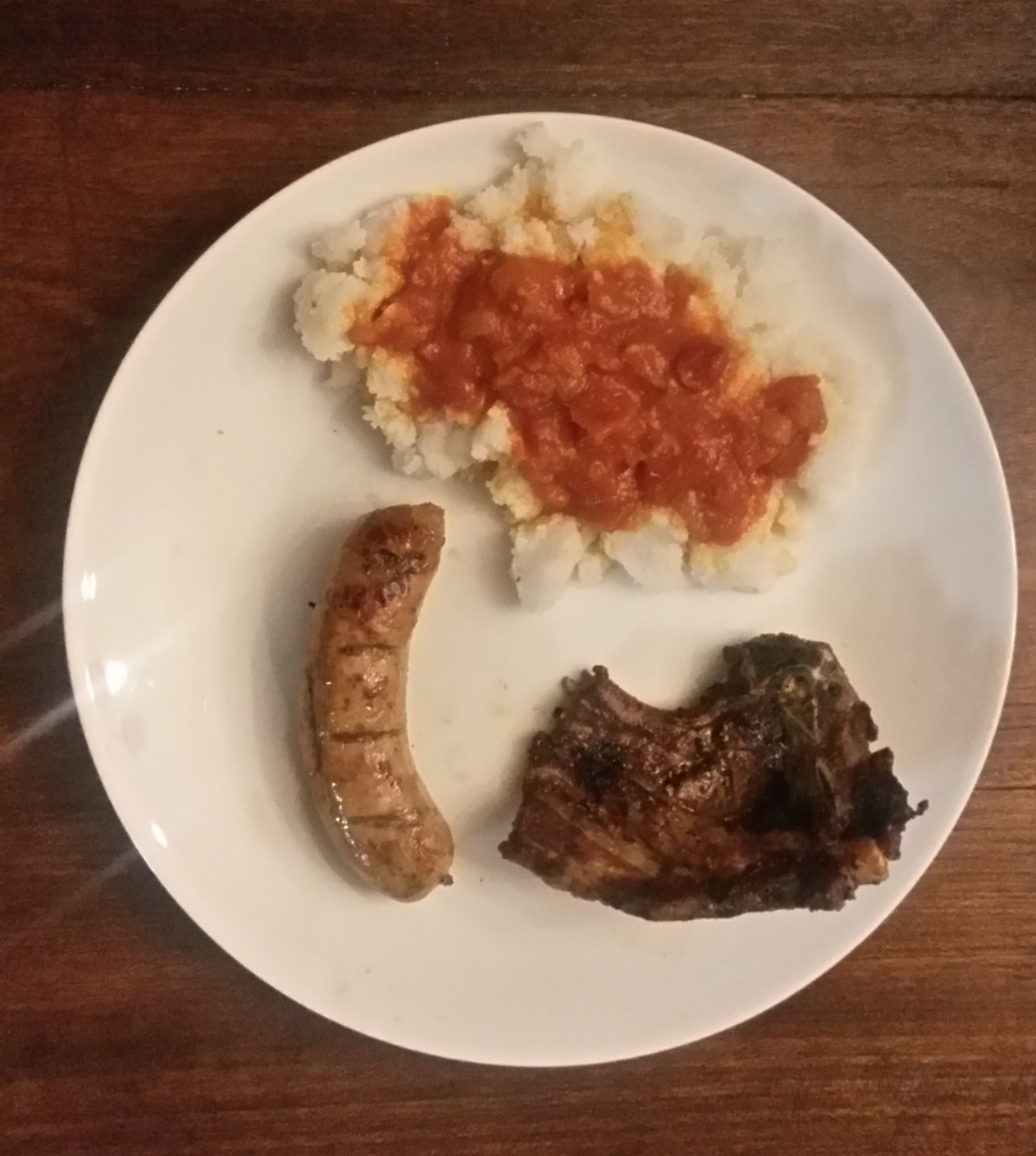 A porridge made from mieliemeel (maize flour), known as pap here in South Africa, covered with a tomato and onion sauce, known as sheba. A sausage and a mutton chop completes this traditional South African meal. This is an image of food from South Africa